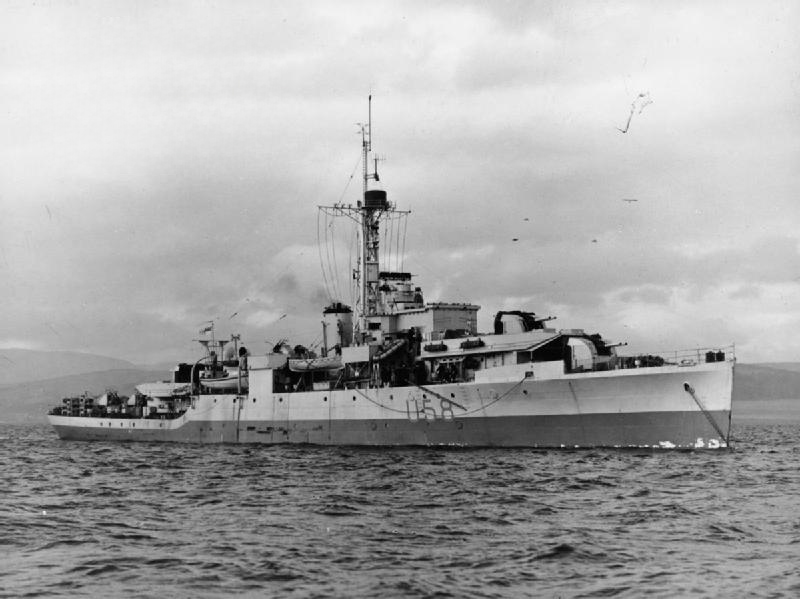 Photograph of British Black Swan class sloop HMS Hart on the River Clyde.